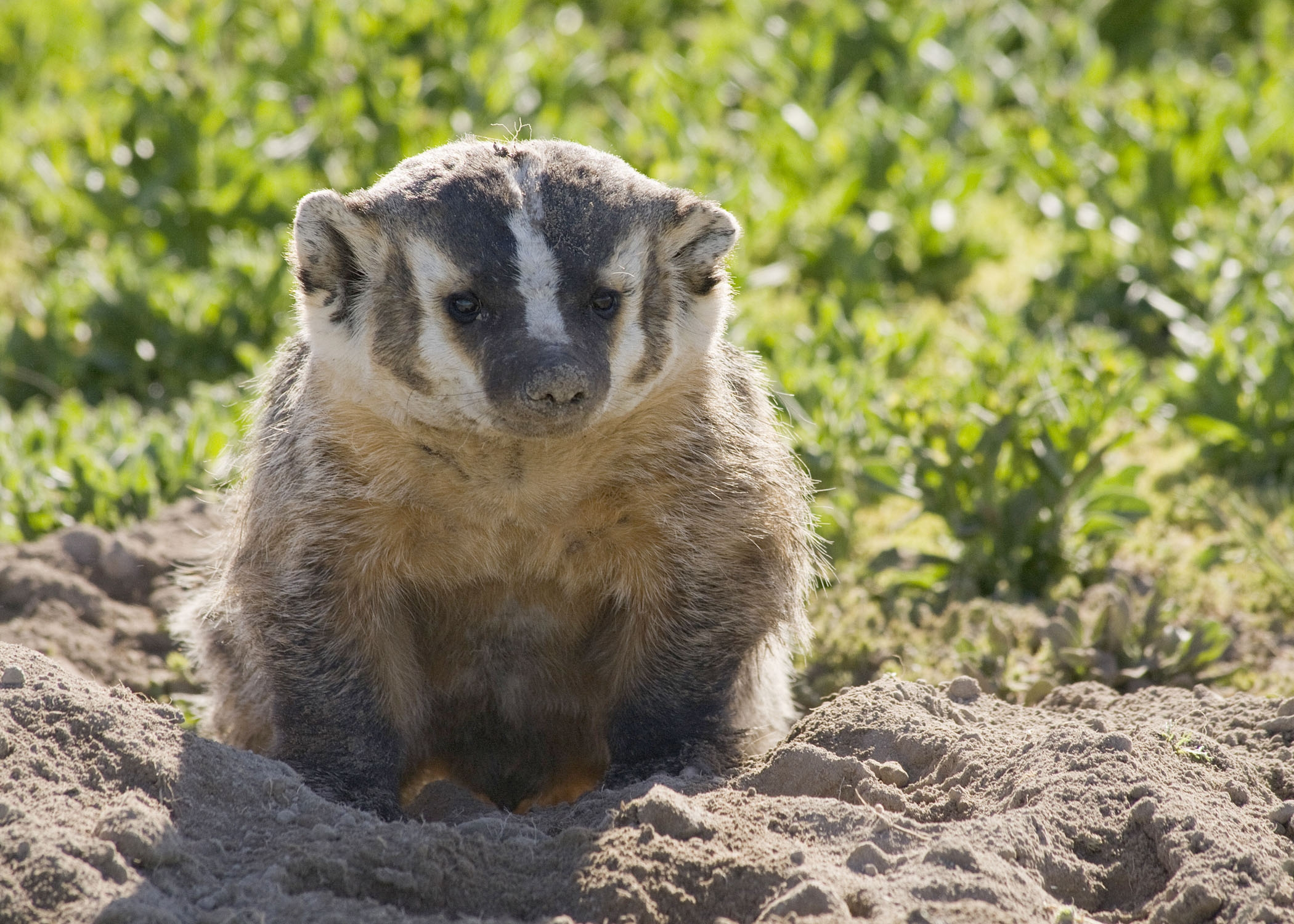 American Badger (Taxidea taxus) more common in the eastern part of the state of Oregon. Photo courtesy ODFW